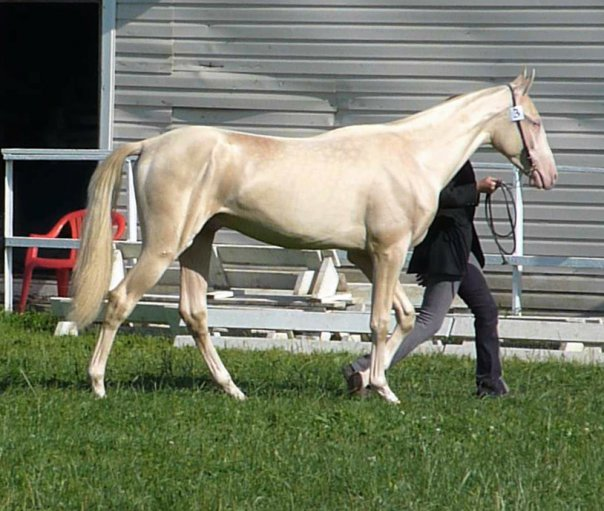 Akgez Geli, cremello Akhal Teke colt 2009 at World Championship in Moscow3